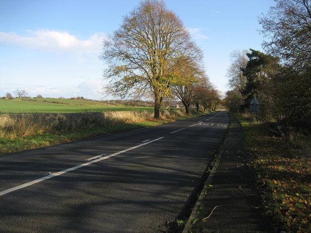 A67 West of Gainford The main road crosses Langley Beck, ascends a sharp hill before opening out into this pleasant avenue as it approaches Gainford.